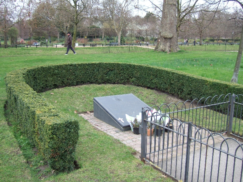 Memorial stone to the four members of the Blues and Royals who died in a bombing here in July 1982